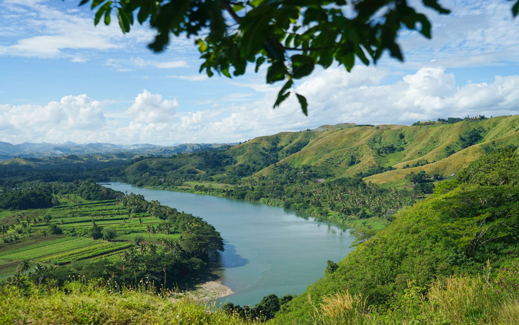 The vista at the top of Tuvuni Hill Fort overlooking Sigatoka Valley, Sigatoka, Coral Coast, Fiji